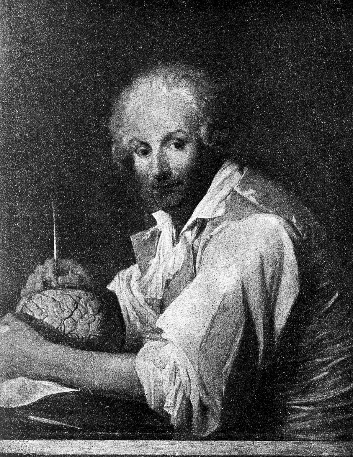 Portrait of Giuseppe Flajani General Collections Keywords: Giuseppe Flajani